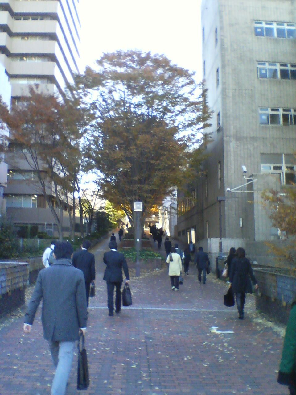 a scene go to work, winter, Japan.